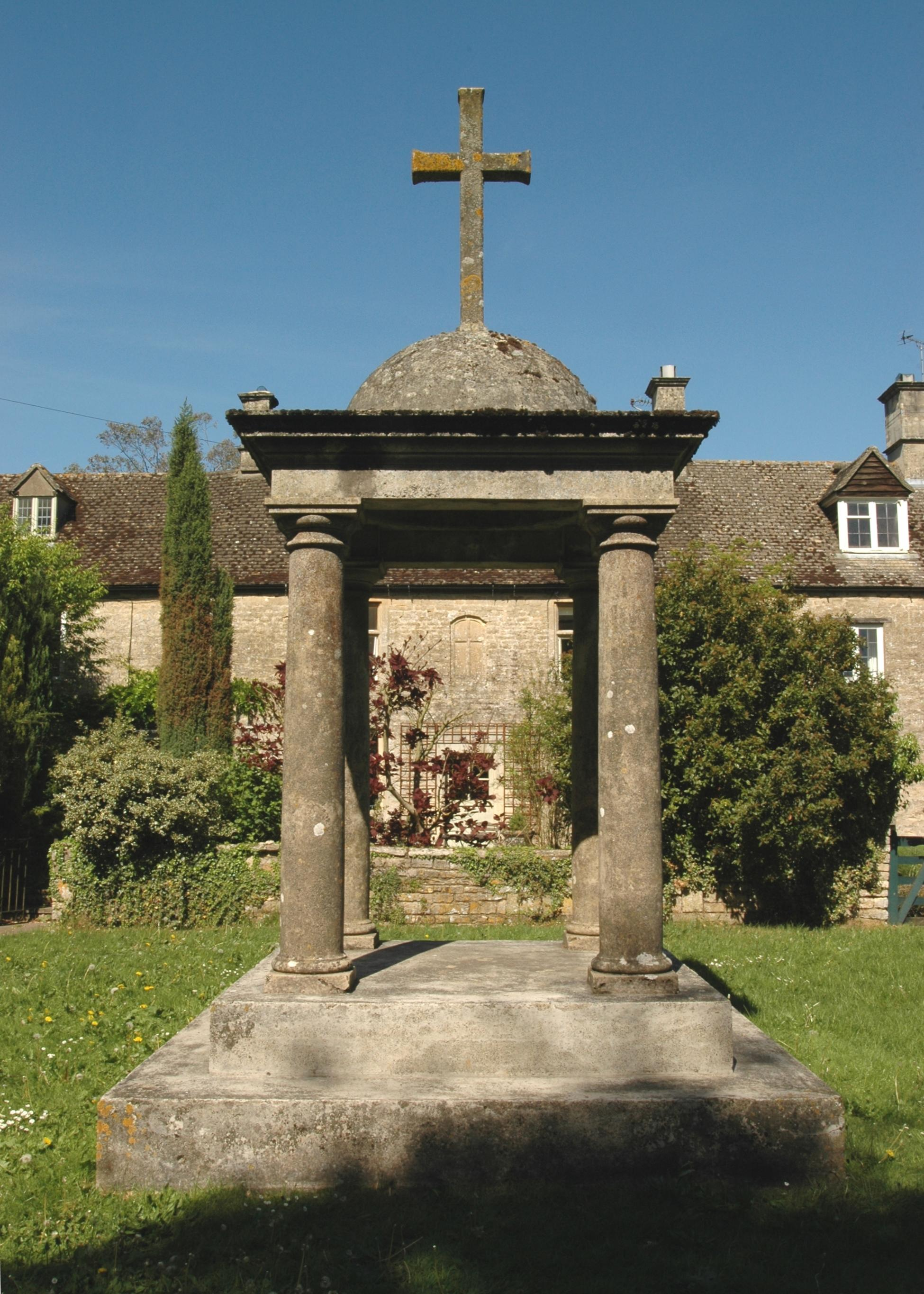 War memorial in front of 17th century cottages at Delly End, Hailey, Oxfordshire.